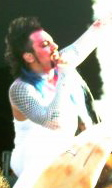 Hayko Cepkin performing at Rock'n Coke festival in Istanbul